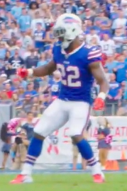 TJ Yeldon 2019. Image from video Kevin Byard's INT vs. Bills | Beneath the Surface, ~ 02:14